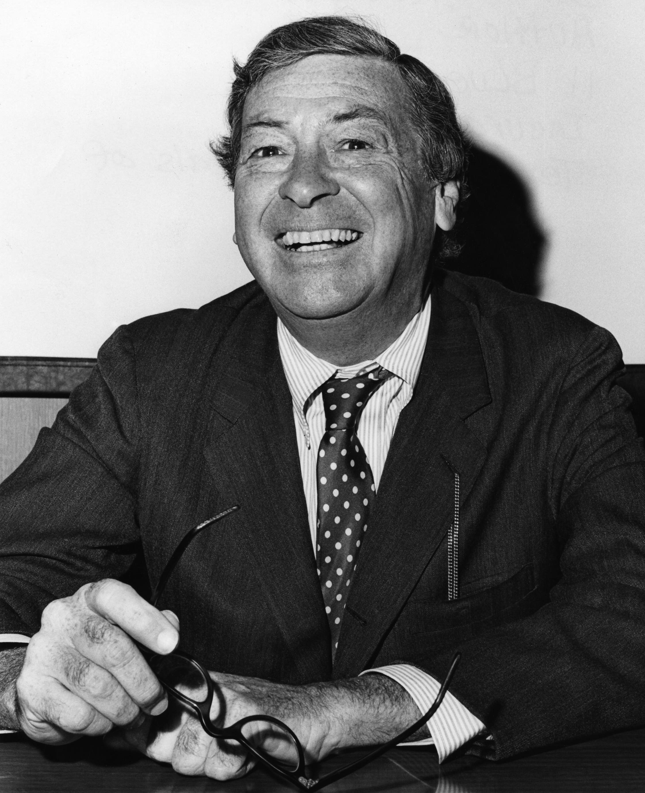 Content provider: CDC (Centers for Disease Control and Prevention, an agency of the United States Department of Health and Human Services) The image is a photographic portrait of Berton Roueché. It was obtained from the Public Health Image Library (PHIL) on the official website of the CDC: (ID#:8113). The image is the high resolution TIFF format version, which was then converted to JPEG format.